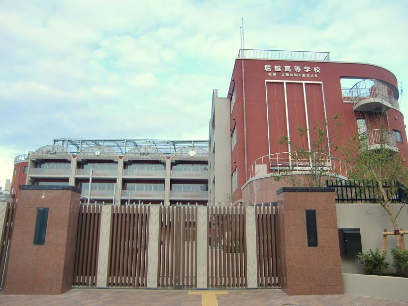 New Horikoshi High School Bldg(since 2016) in Nakano, Tokyo Japan